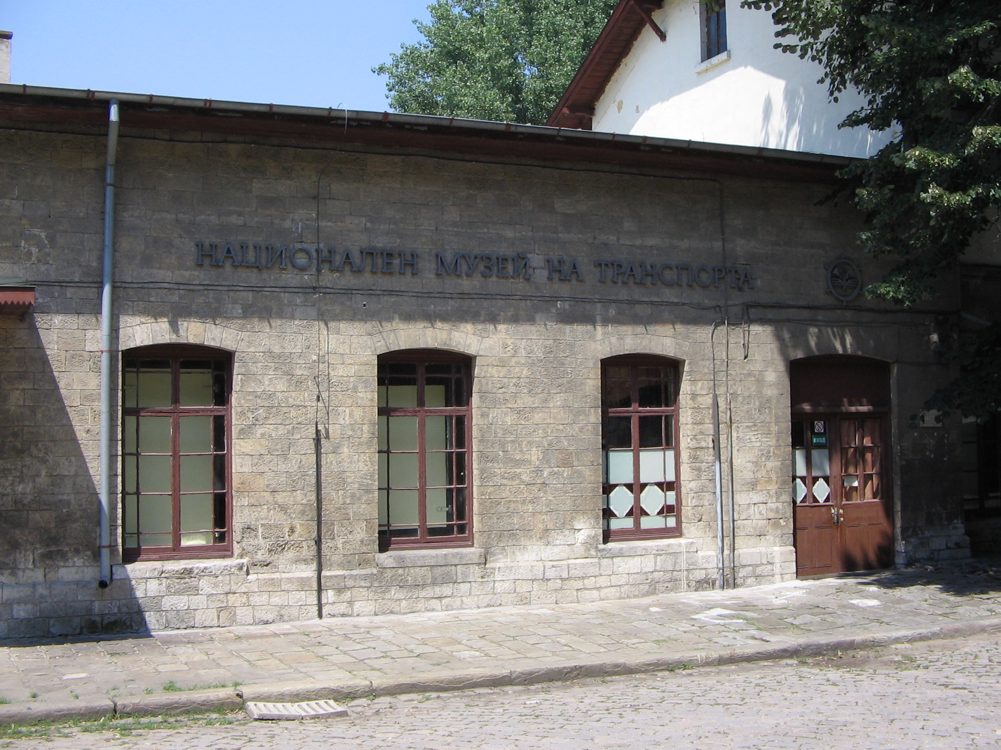 The building of the National transport museum in Rousse, Bulgaria.